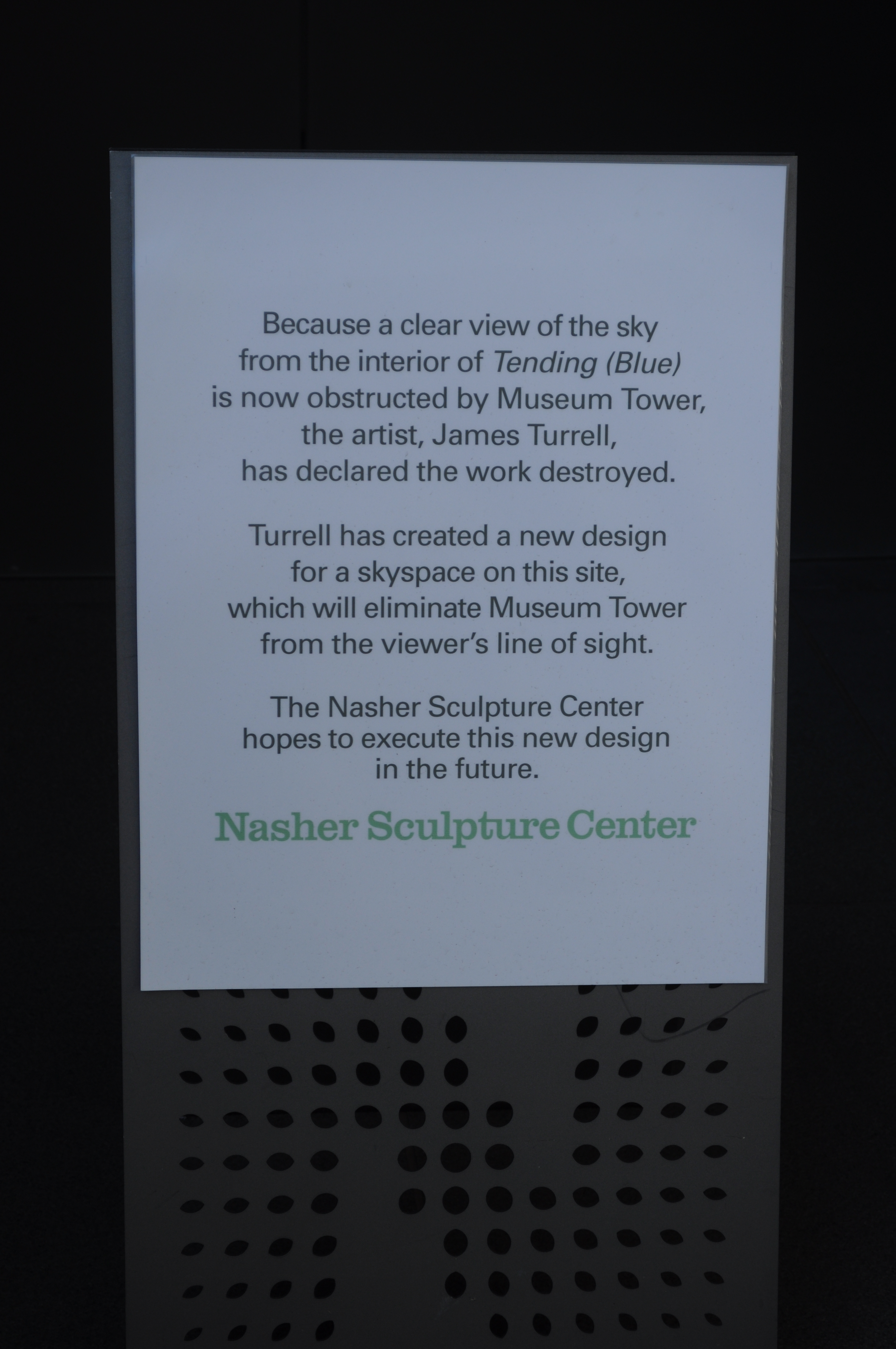 Sign at the Nasher Sculpture Center, Dallas, Texas, USA, explaining that sculptor James Turrell considers his site-specific 2003 piece Tending (Blue) to be destroyed by the construction of the nearby Museum Tower. The interior of the piece is now consequently closed to the public.